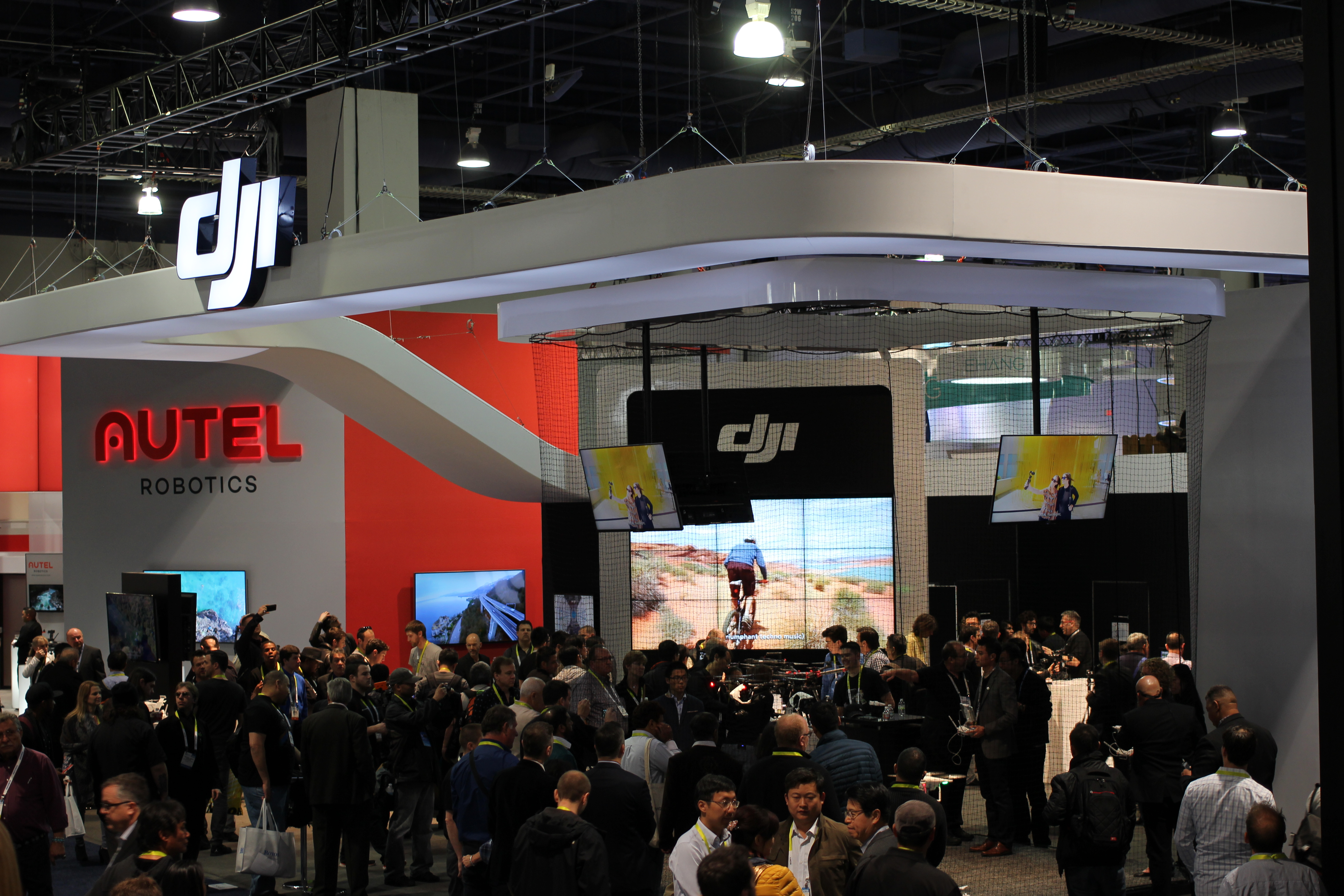 DJI CES 2016 booth